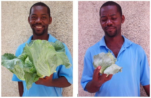 SOIL agronomist admires cabbage grown in compost (left) and without soil amendments (right).